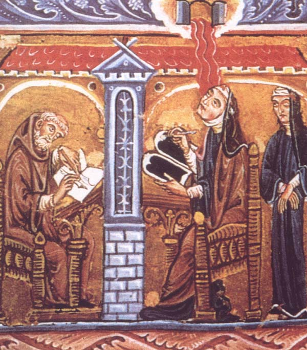 Hildegard reading and writing